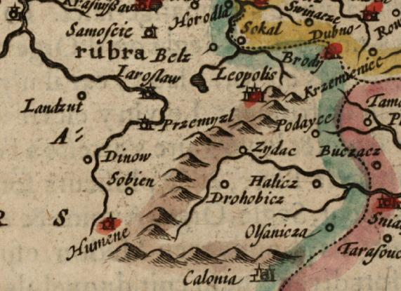 One piece Małopolskie district map of MERCATOR, G. HONDIUS,J. Lithuania. Amsterdam 1634.